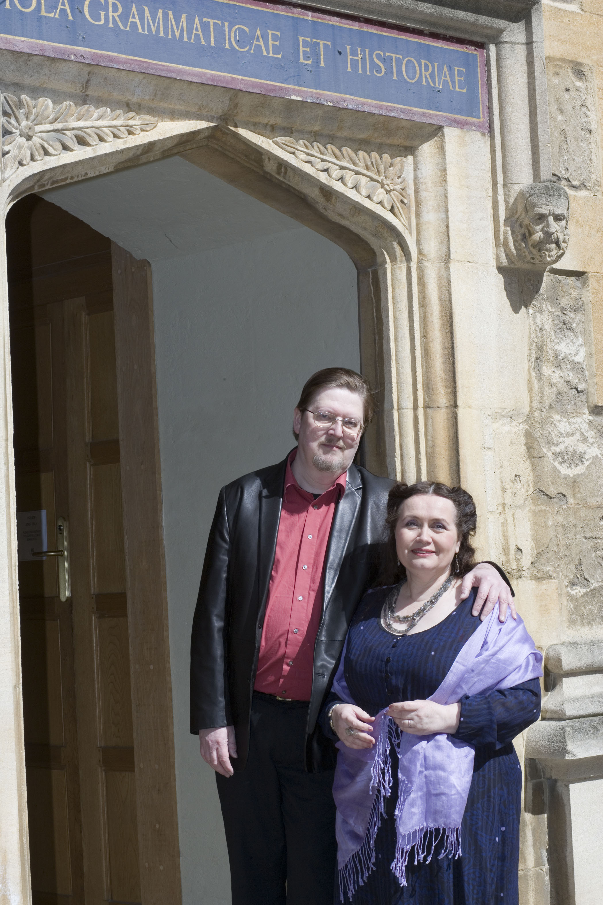 Authors John and Caitlin Matthews, Oxford